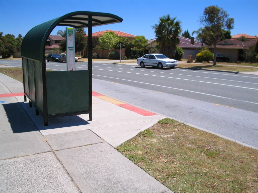 Photo taken by me.